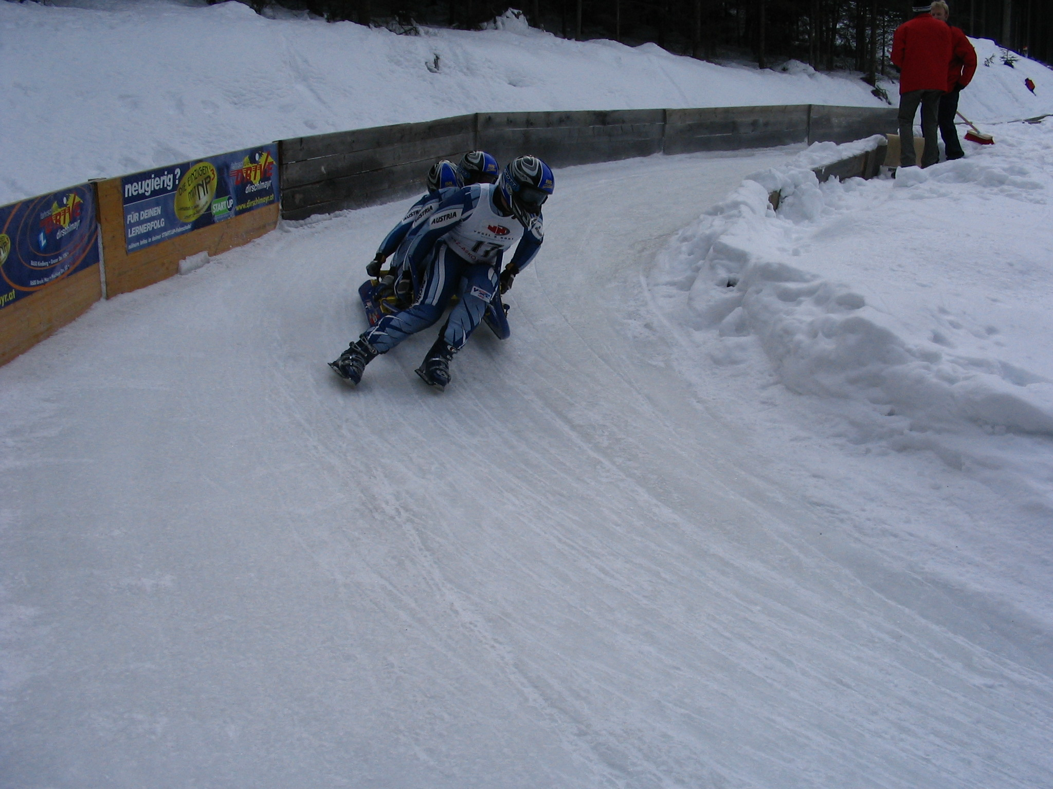 Hornschlitten-Eruopacuprennen in Kindberg, Österreich